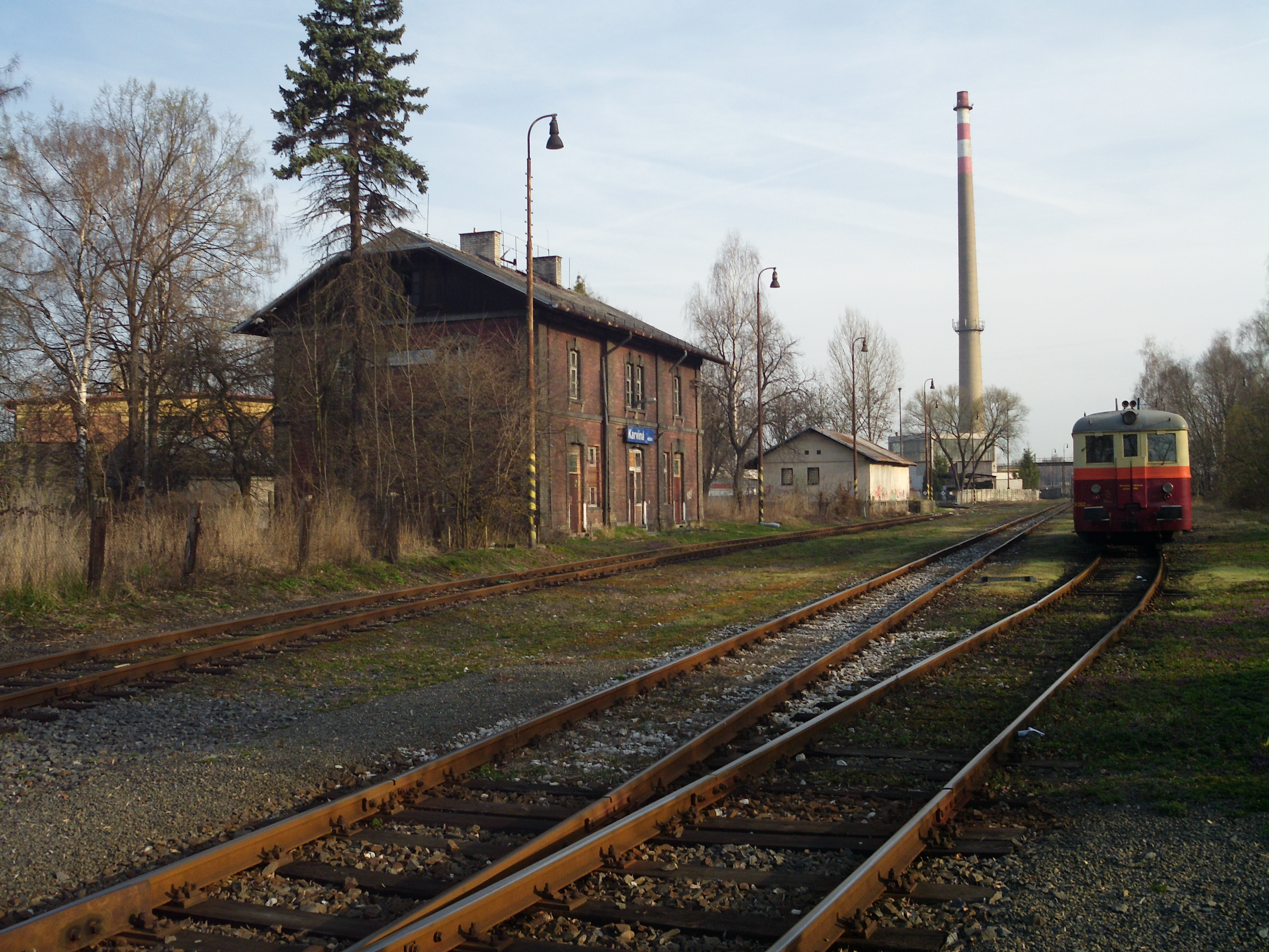 Diesel railcar M262.1117 of KŽC Doprava at Karviná město station in Karviná, Czech Republic, the terminus of a freight-only route from Petrovice u Karviné. There are no regular passenger trains on this line; this tour was organized as a charter for railfans.